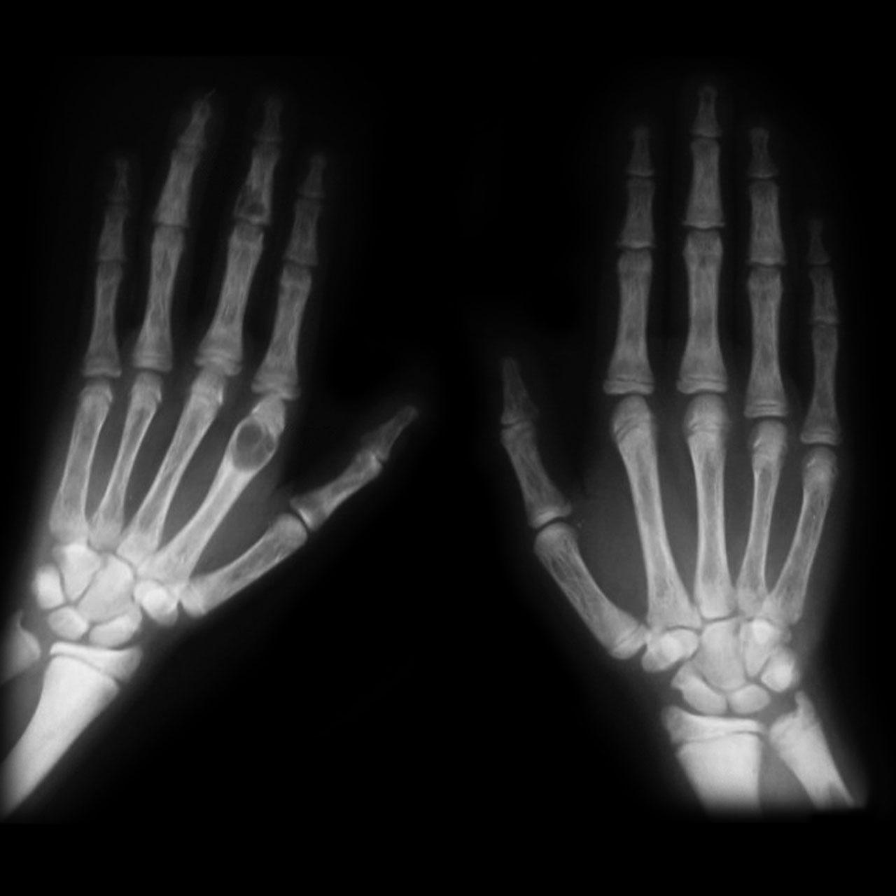 Brown tumours of the hands in a patient with hyperparathyroidism. This is an edited version of the source image made for use in the "Anatomist" iOS and Android app and shared here under the terms of the source image's Share Alike Creative Commons license.